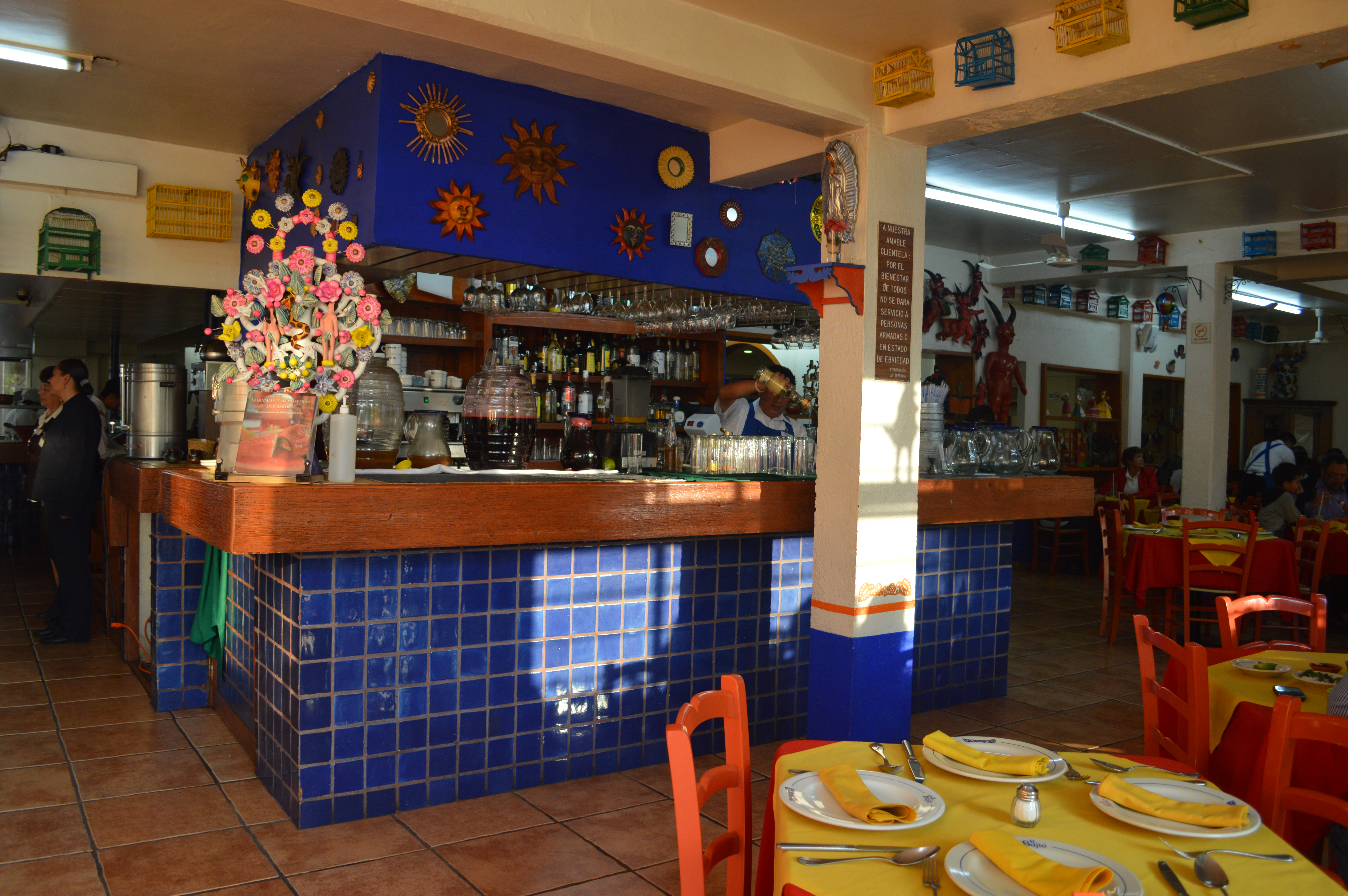 Bar area at the El Bajío restaurant in Azcapotzalco, Mexico City